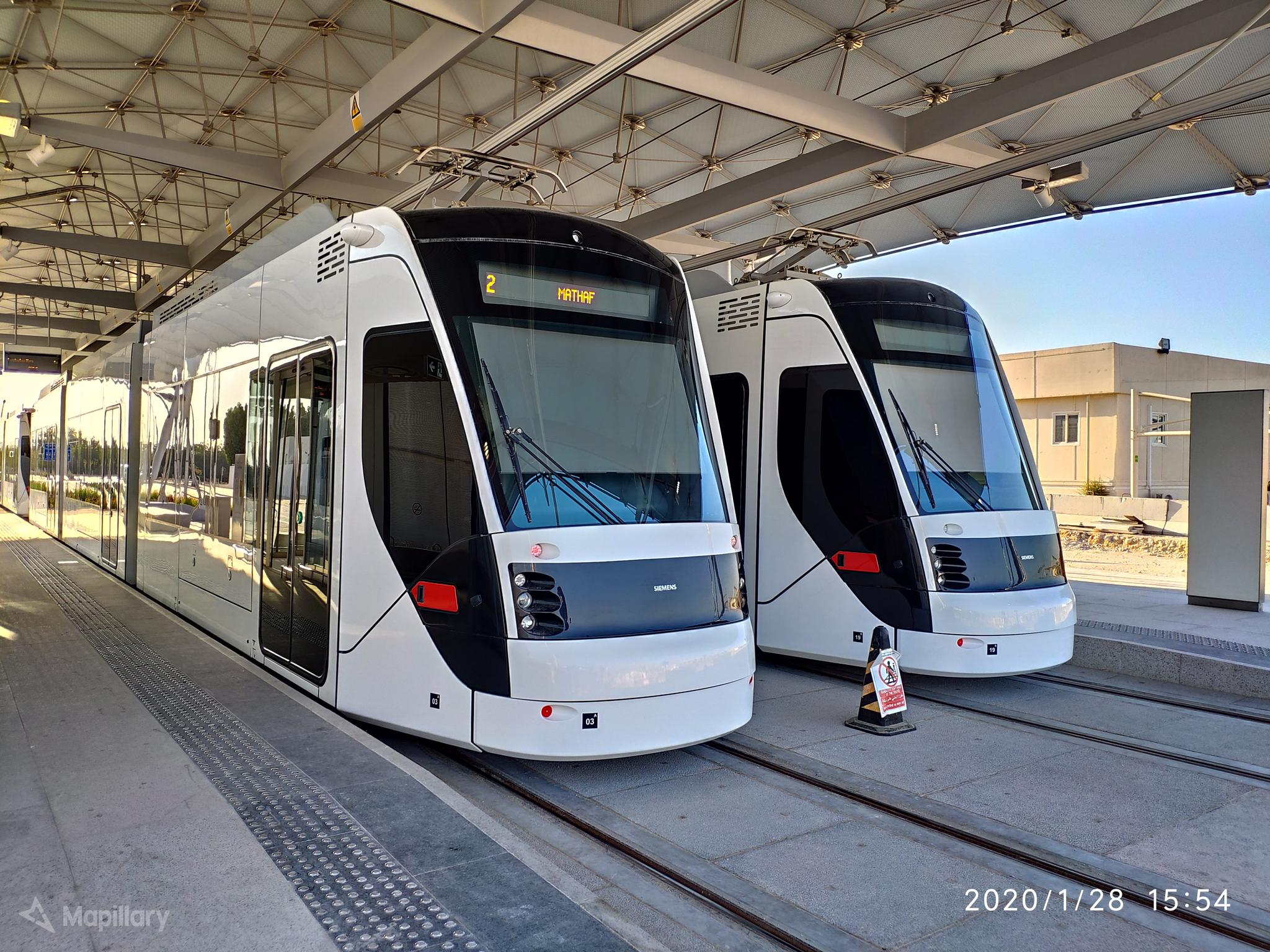 Doha Metro Green Line at Mathaf Museum in the Fereej Al Zaeem district of Al Rayyan, Qatar.